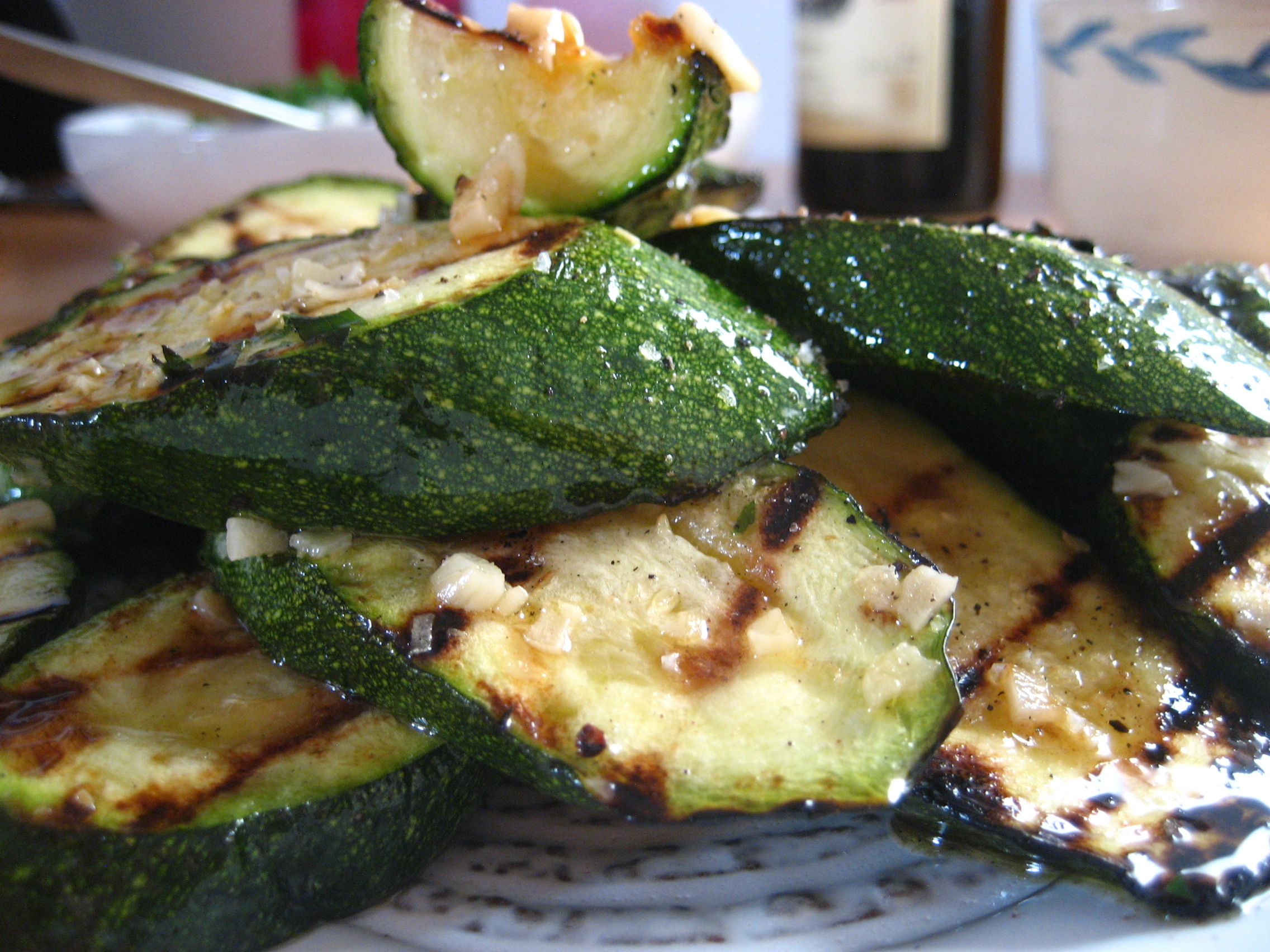 Grilled zucchini in a restaurant in Brighton.